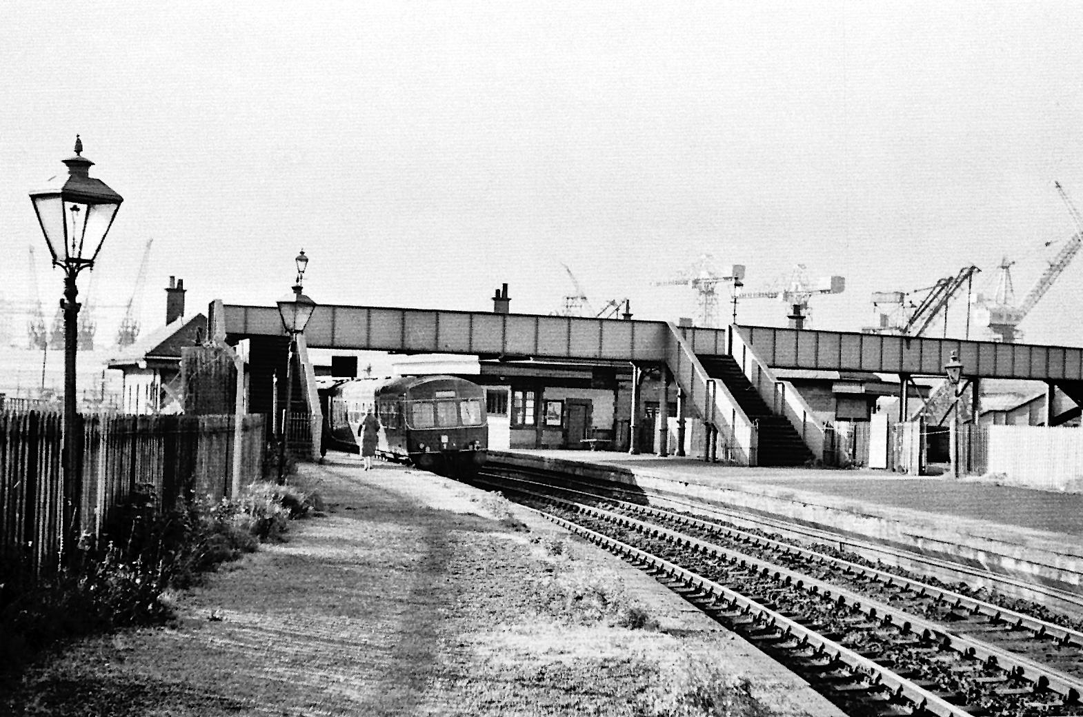 Partick West with an unidentified diesel multiple unit. A number of ship building cranes are in the background